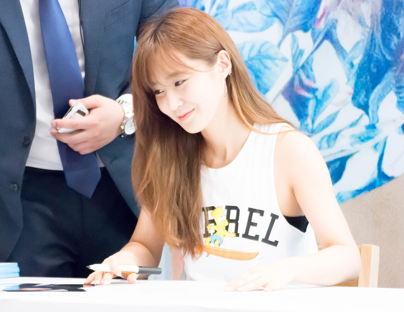 Kwon Yu-ri of Girls' Generation attends the autograph session for BARREL at Lotte Department Store on July 29, 2016 in Seoul, South Korea.